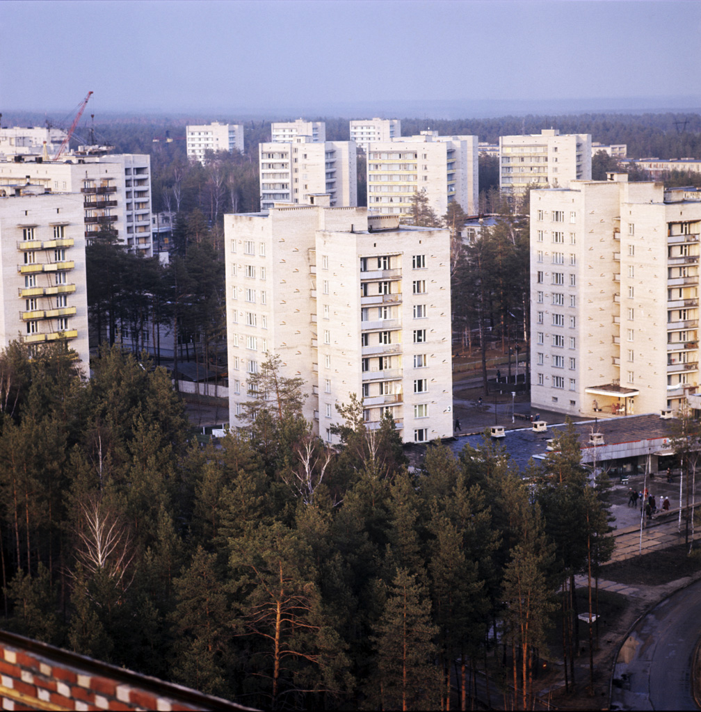 “Protvino town”. Protvino town.